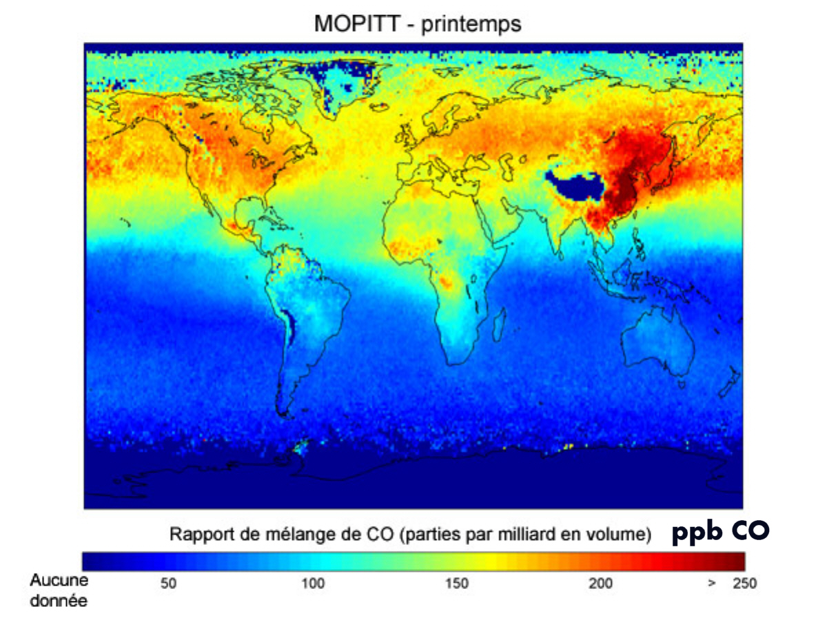 This map shows the average over four years (March 2000 to February 2004) of carbon monoxide concentrations in spring.